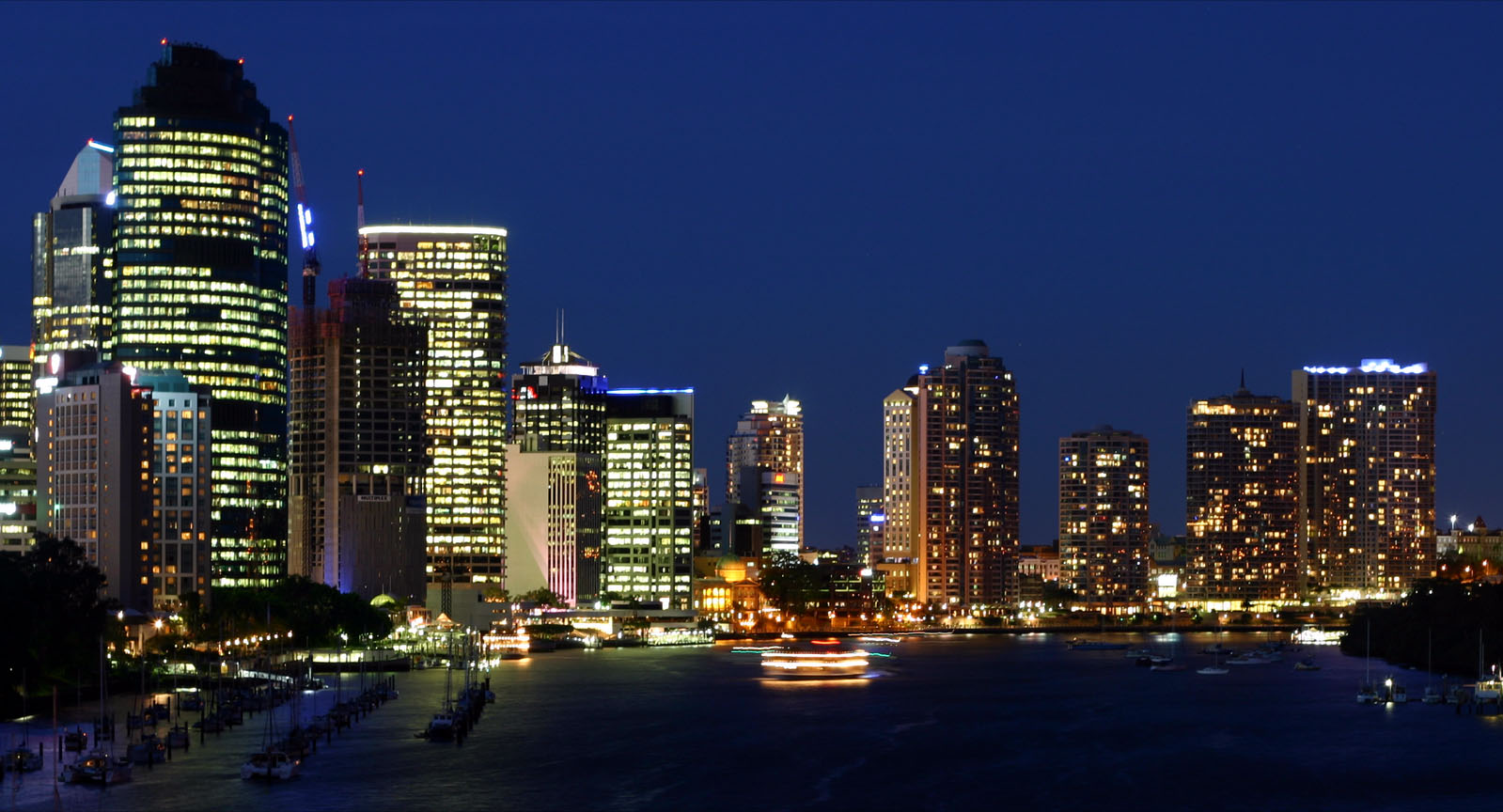 Brisbane city by night, looking from Kangaroo Point Cliffs.